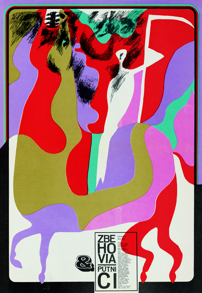 Official film poster